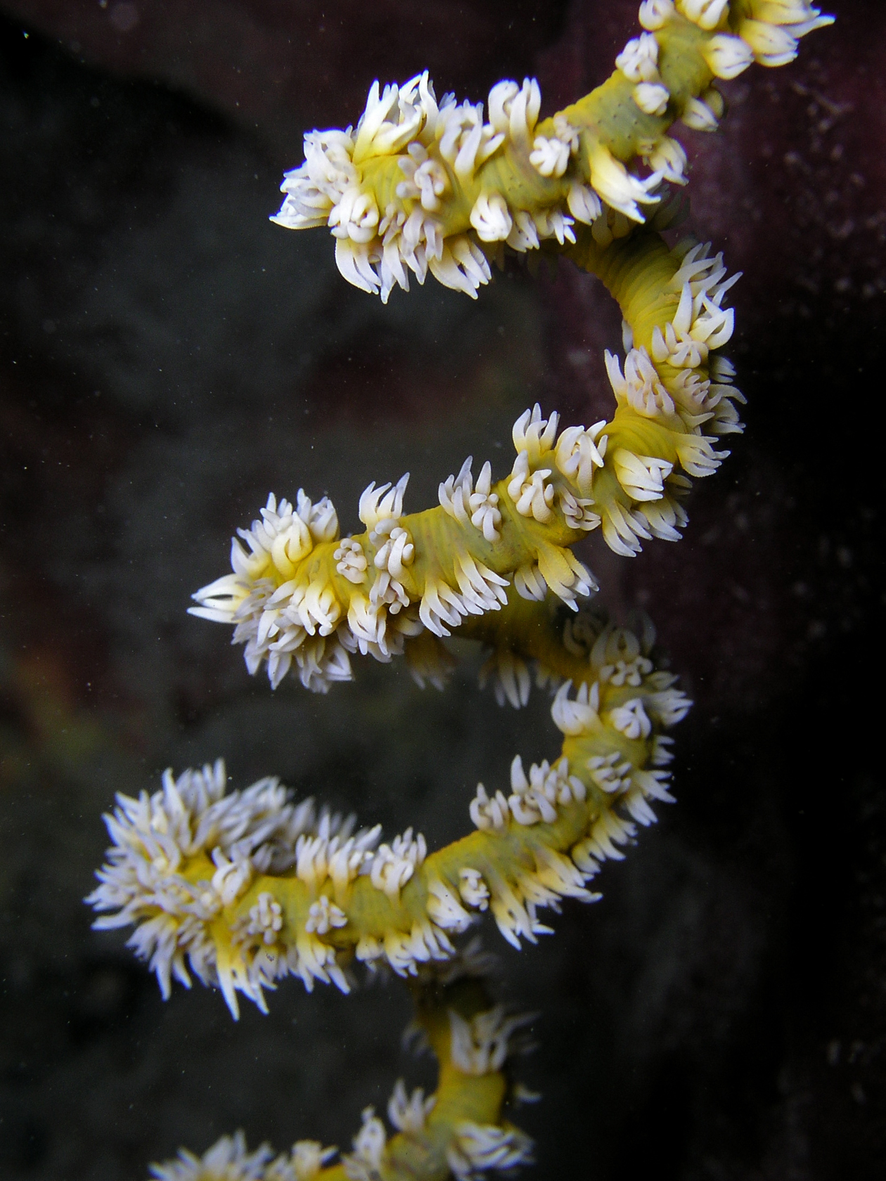 Cirripathes sp. Spiral wire coral - Black coral